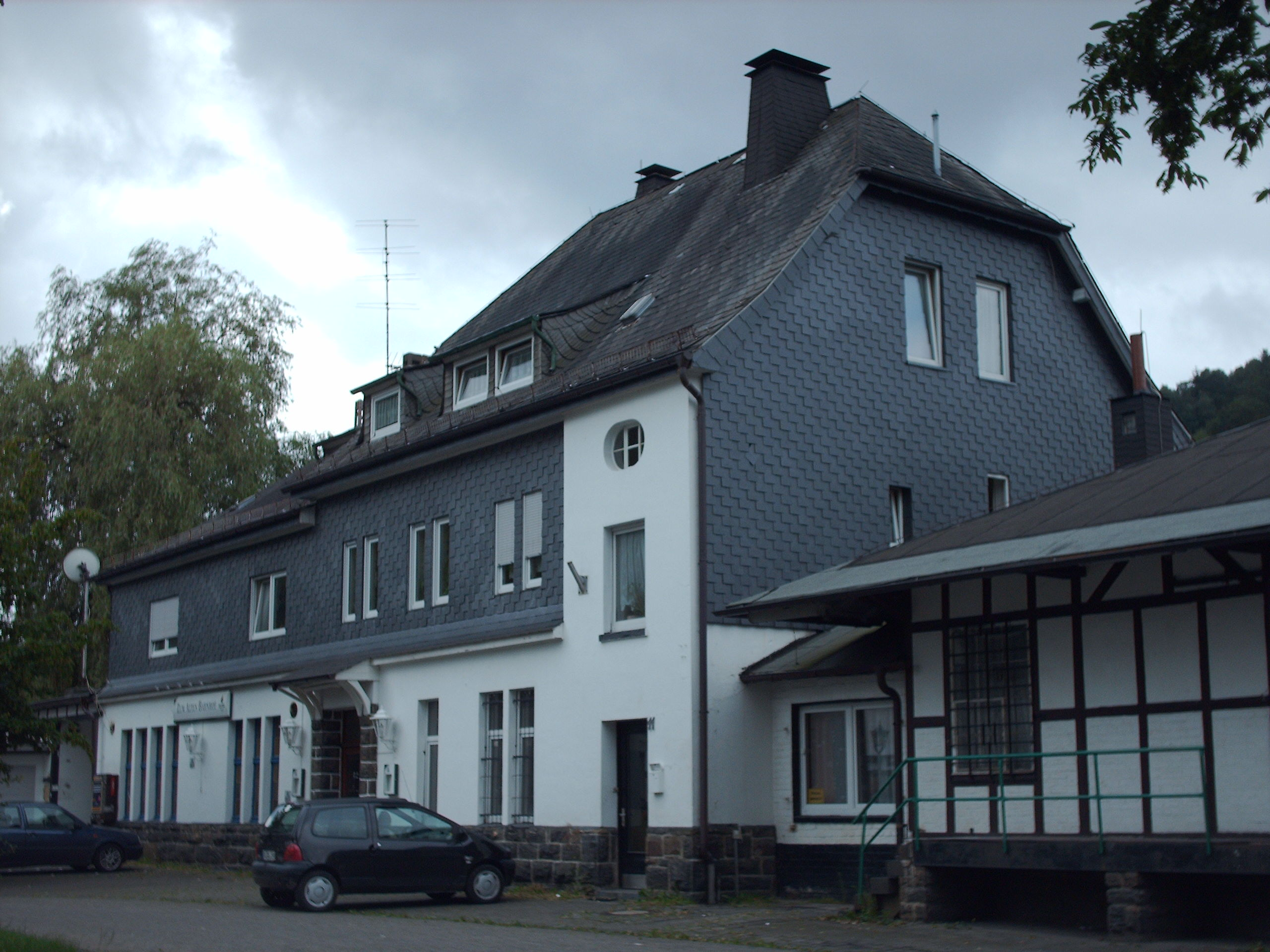 Meggen station, Lennestadt, Germany check usage